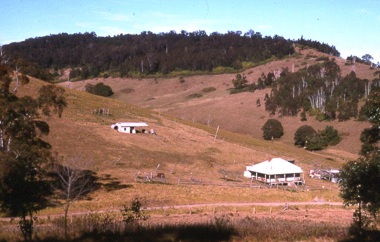 homesteads, australia